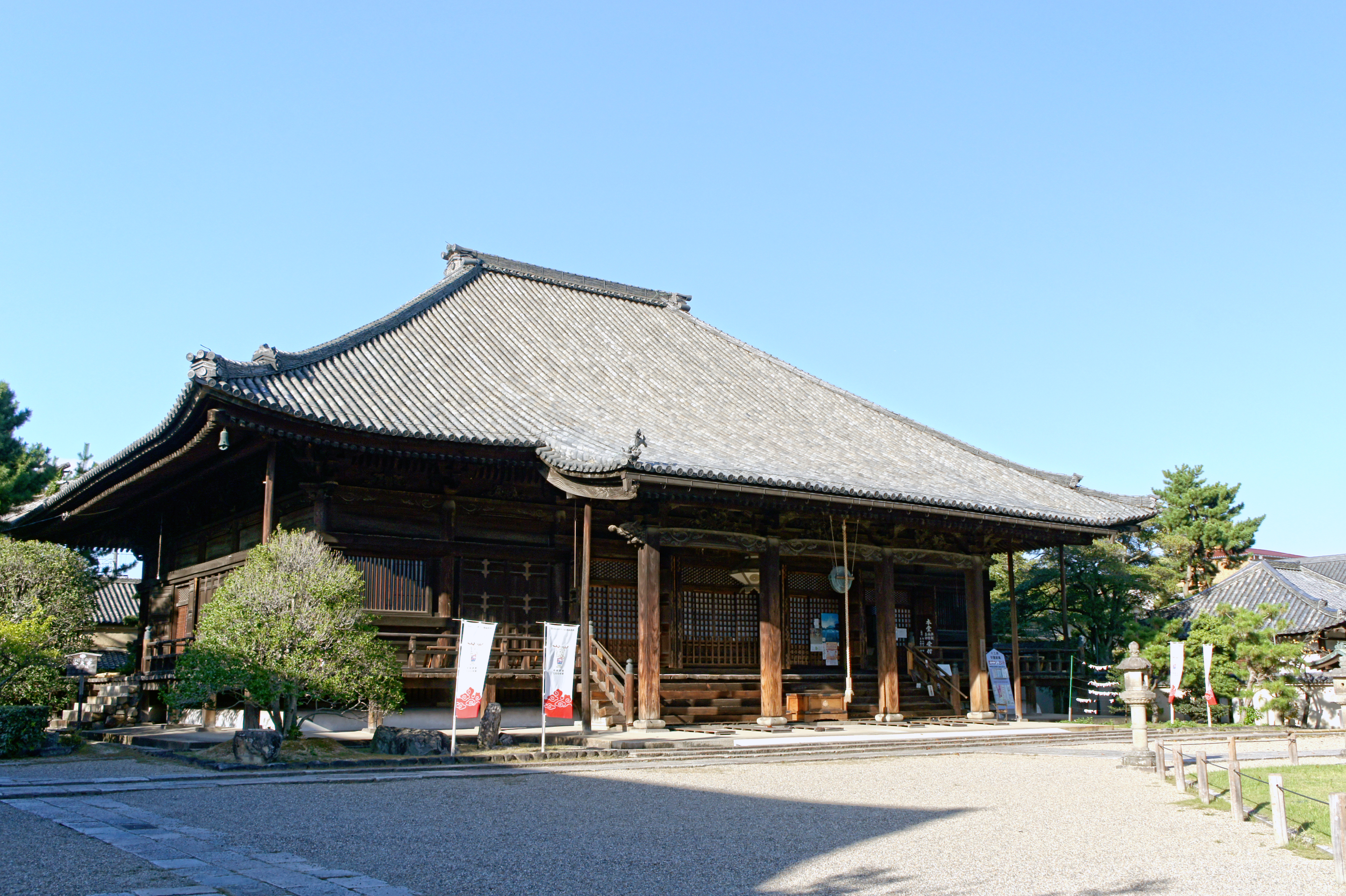 Saidai-ji in Nara, Nara prefecture, Japan.